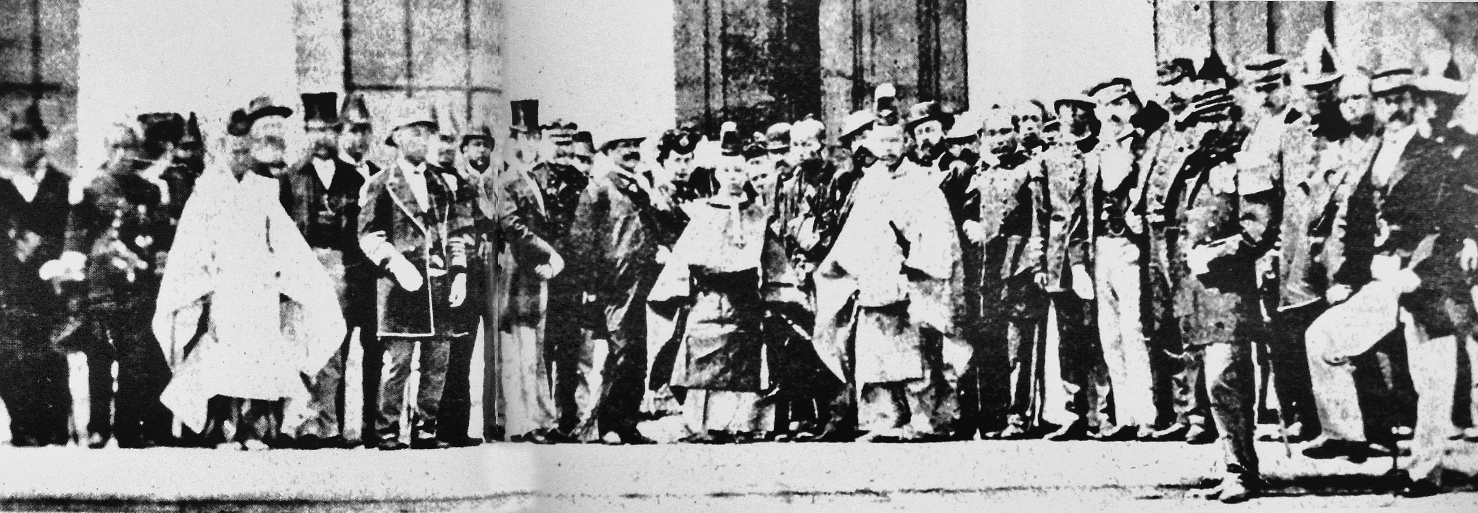 Teenager_Meiji_Emperor_with_foreign_representatives_1868_1870.